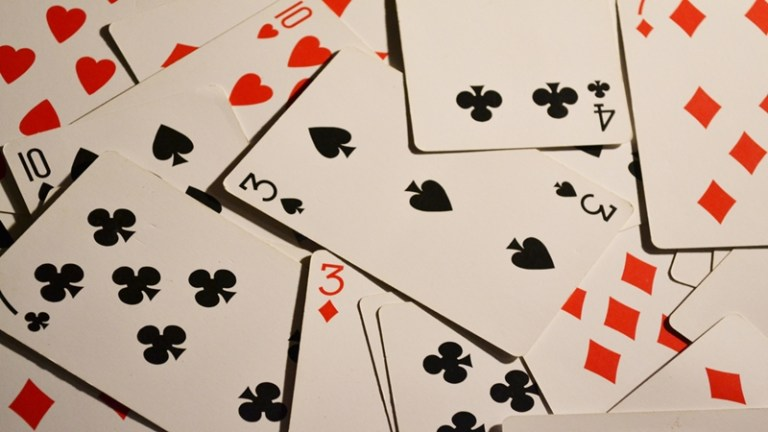 This pic is about gambling addiction